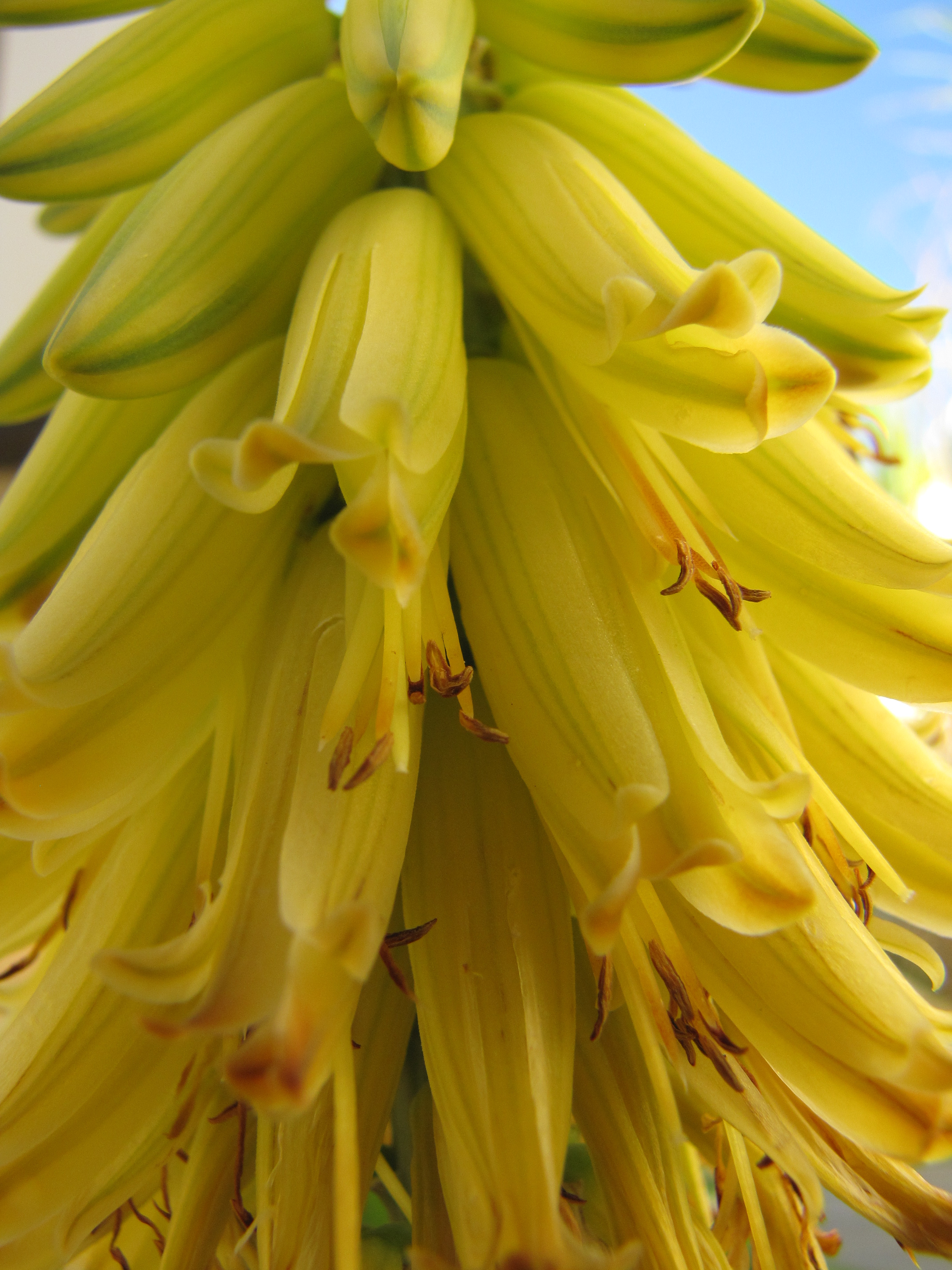 Aloe vera (Aloe, aloe vera, common aloe) Flowers at Honokanaia, Kahoolawe, Hawaii. December 22, 2009 #091222-1011 Image Use Policy Also placed in Aloeaceae and Asphodelaceae.